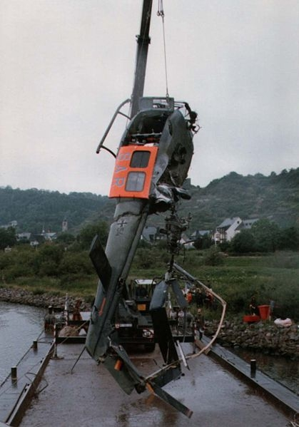 Recovered German Army SAR Helicopter Bell UH-1D after crashed onto the embankment of the Mosel-River